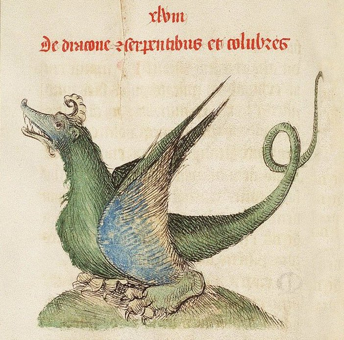 Liber Floridus page scan A, ca. 1460 / Lambert of St. Omer, Liber Floridus (Lille and Ninove, 1460), kb.nl